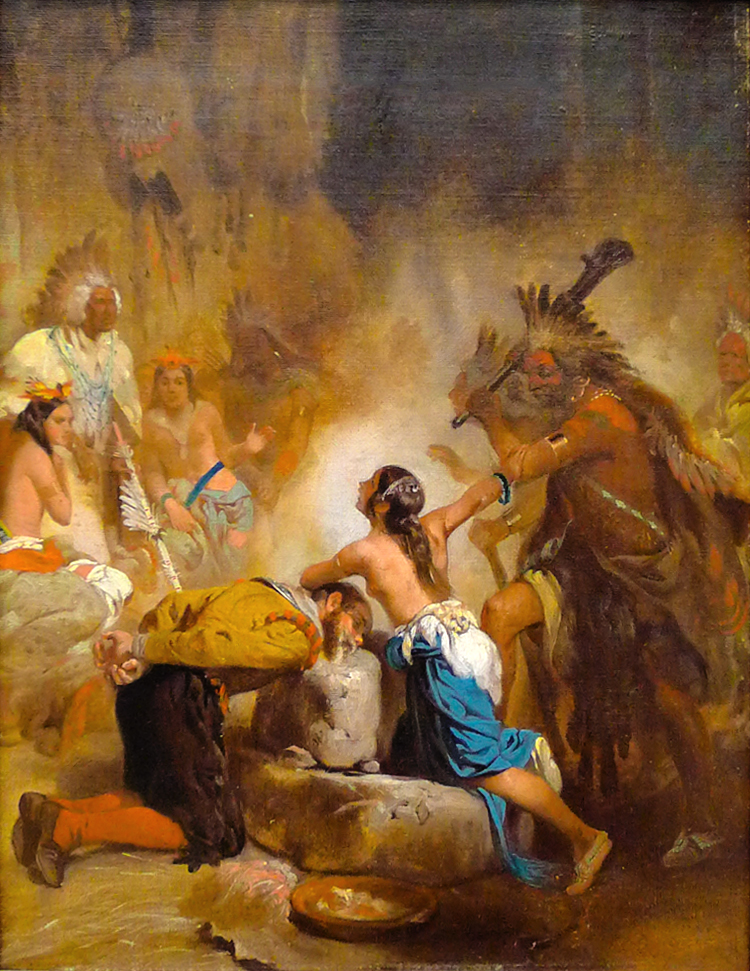 based off his wood carving from 1861, currently on display in the Art Museum of Western Virginia. Smithsonian Inventory information is available, as is an article from The Roanoke Times.